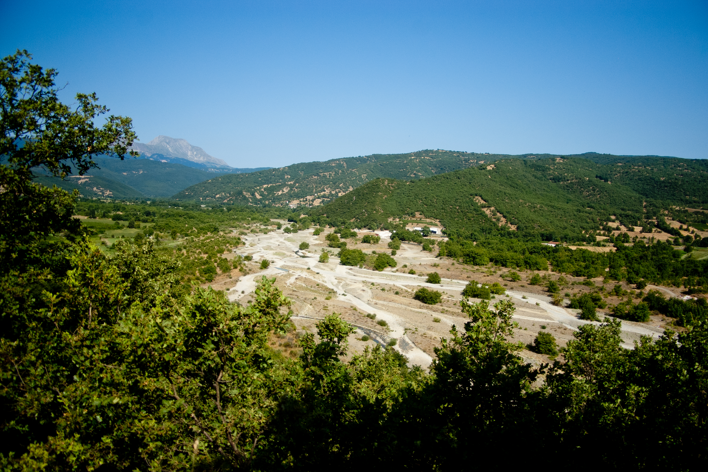 The river Spercheios, Central Greece. Taken from the hill of Kastrorachi, Makrakomi.